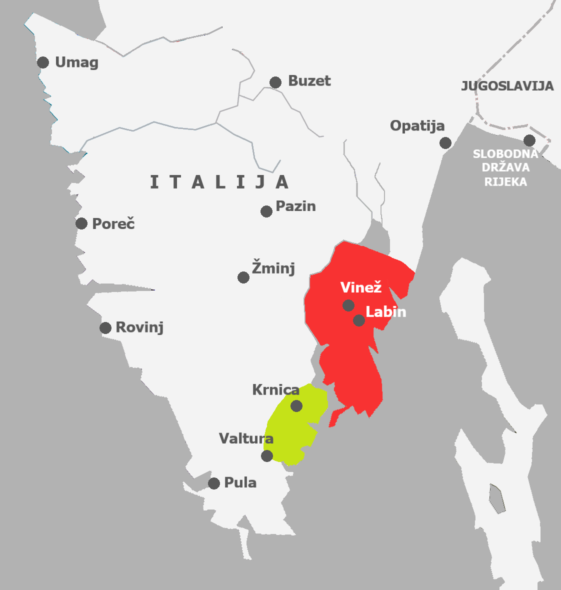 Map of Albona Republic within Istria in 1921